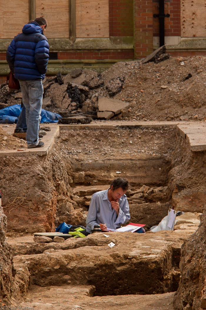 Archaeological excavations in car park of the old Alderman Newton School, just off St Martins around the corner from Greyfriars. The archaeologist in the trench is at the site where the bones of a female were discovered. This was not a burial, but a charnel collection.